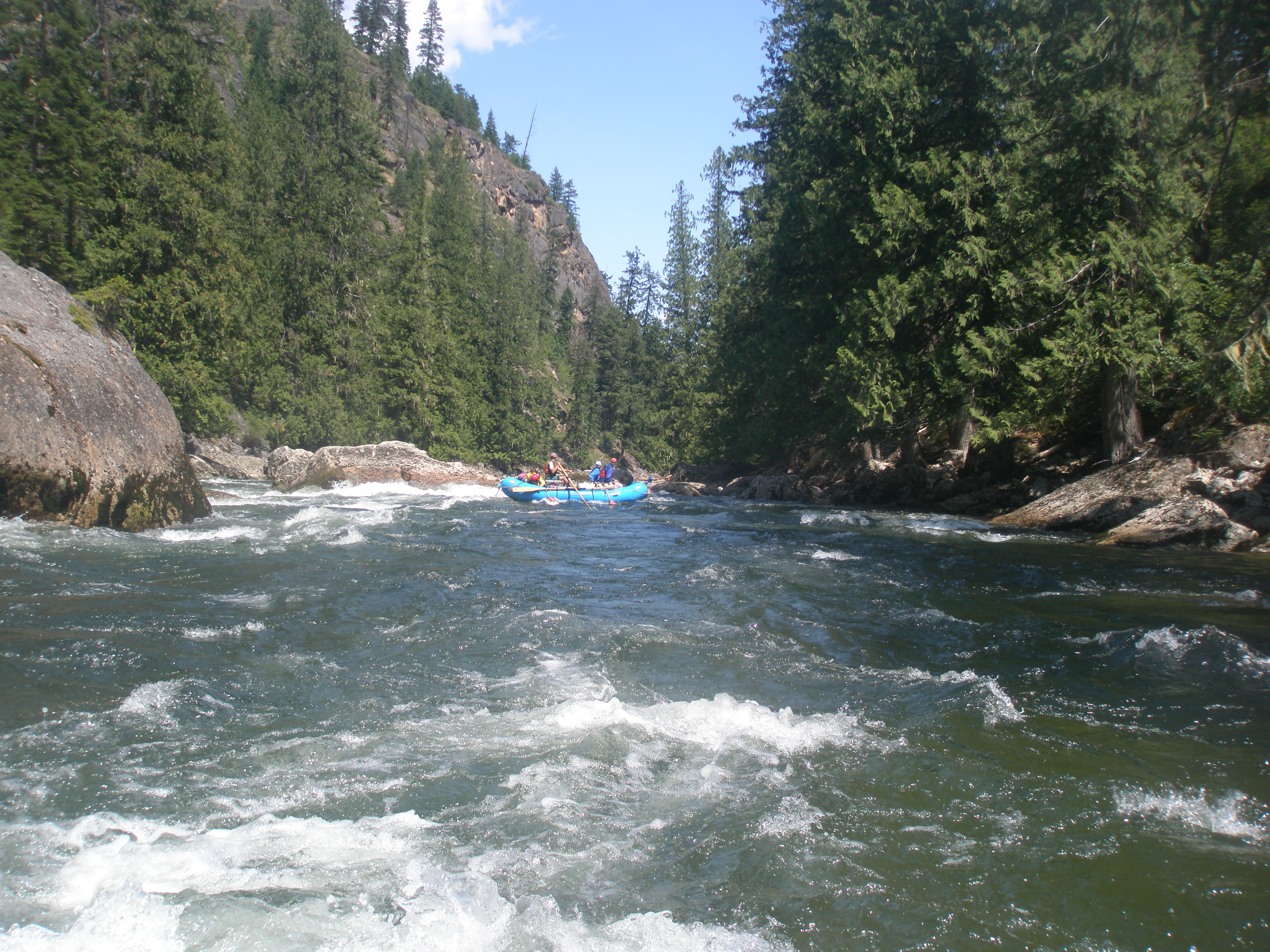 The Goat Creek rapid on the Selway River in north central Idaho